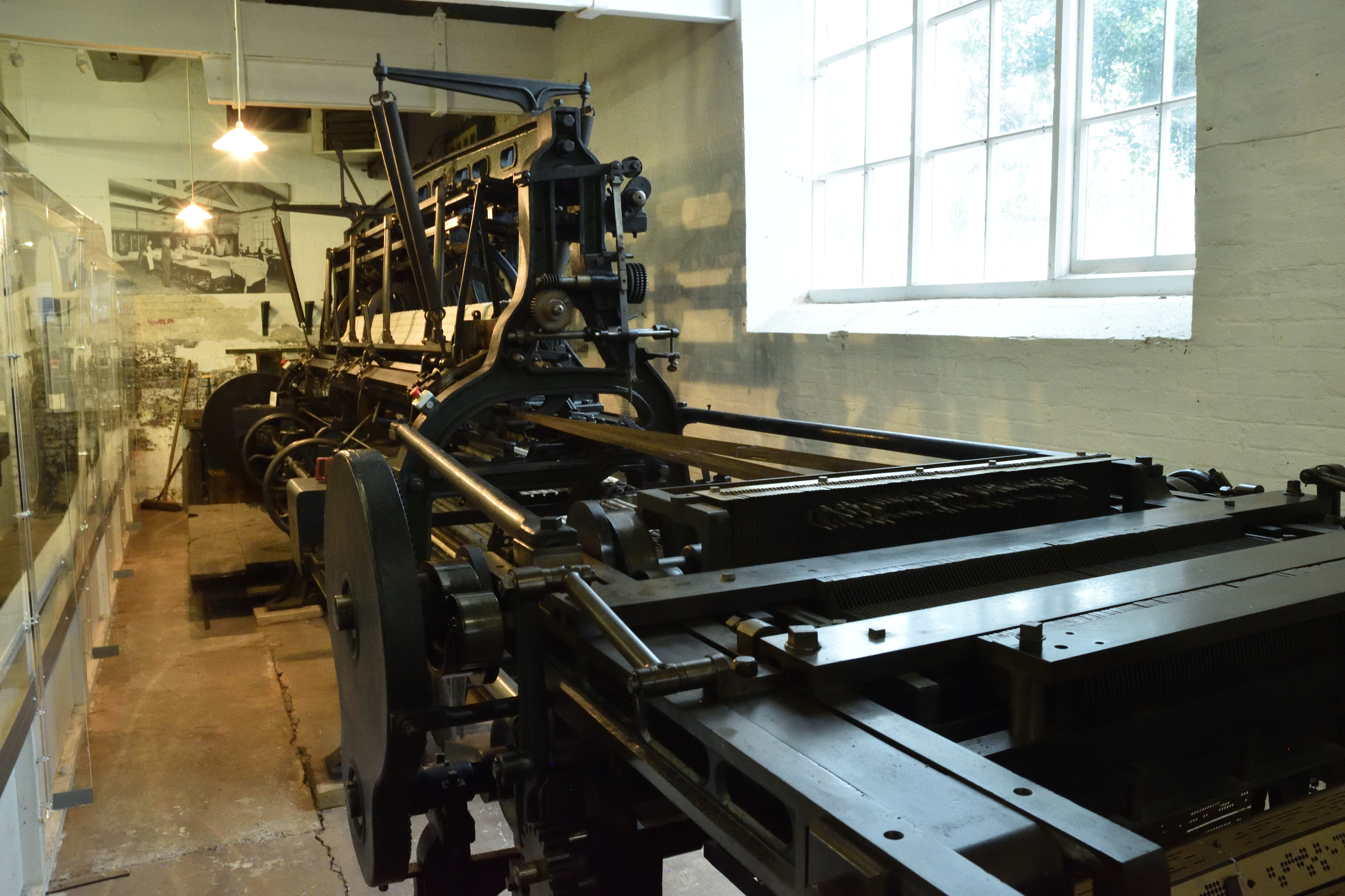 The Leavers machine is a lacemaking machine that John Levers adapted from Heathcoat's Old Loughborough machine. The original made net lace, but it was discovered in 1841 that a Jacquard apparatus allowed the production of lace complete with pattern, net and outline.